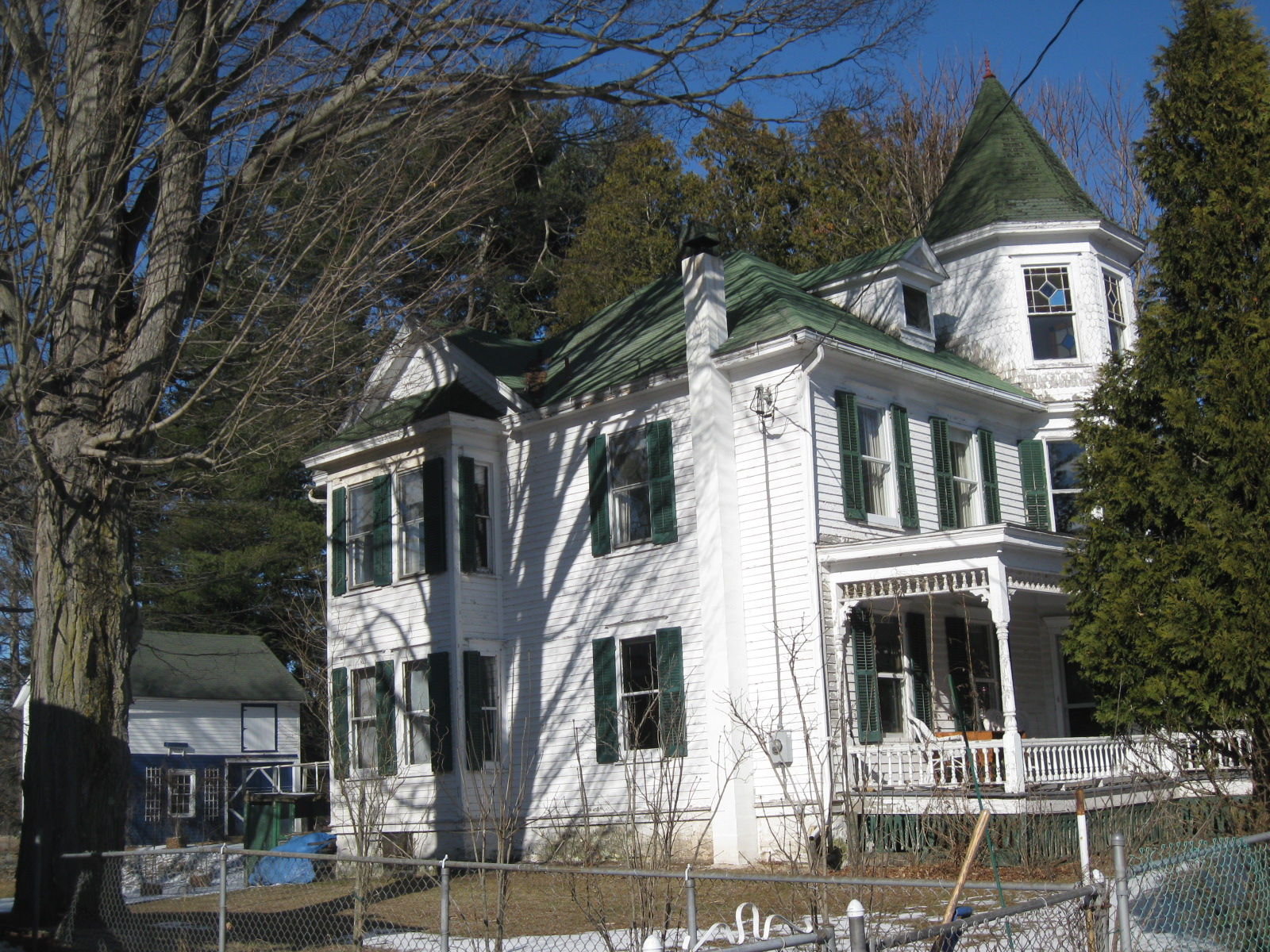 Cohecton, New York